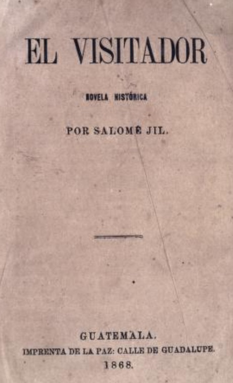 Front page of historical novel El Visitador